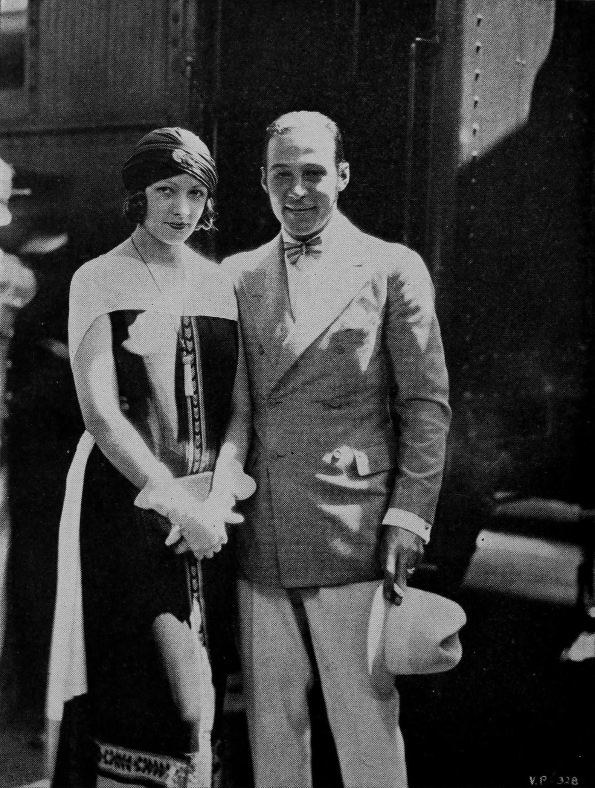 According to the book, this was their last photograph together, taken the day before Rambova left for a divorce.